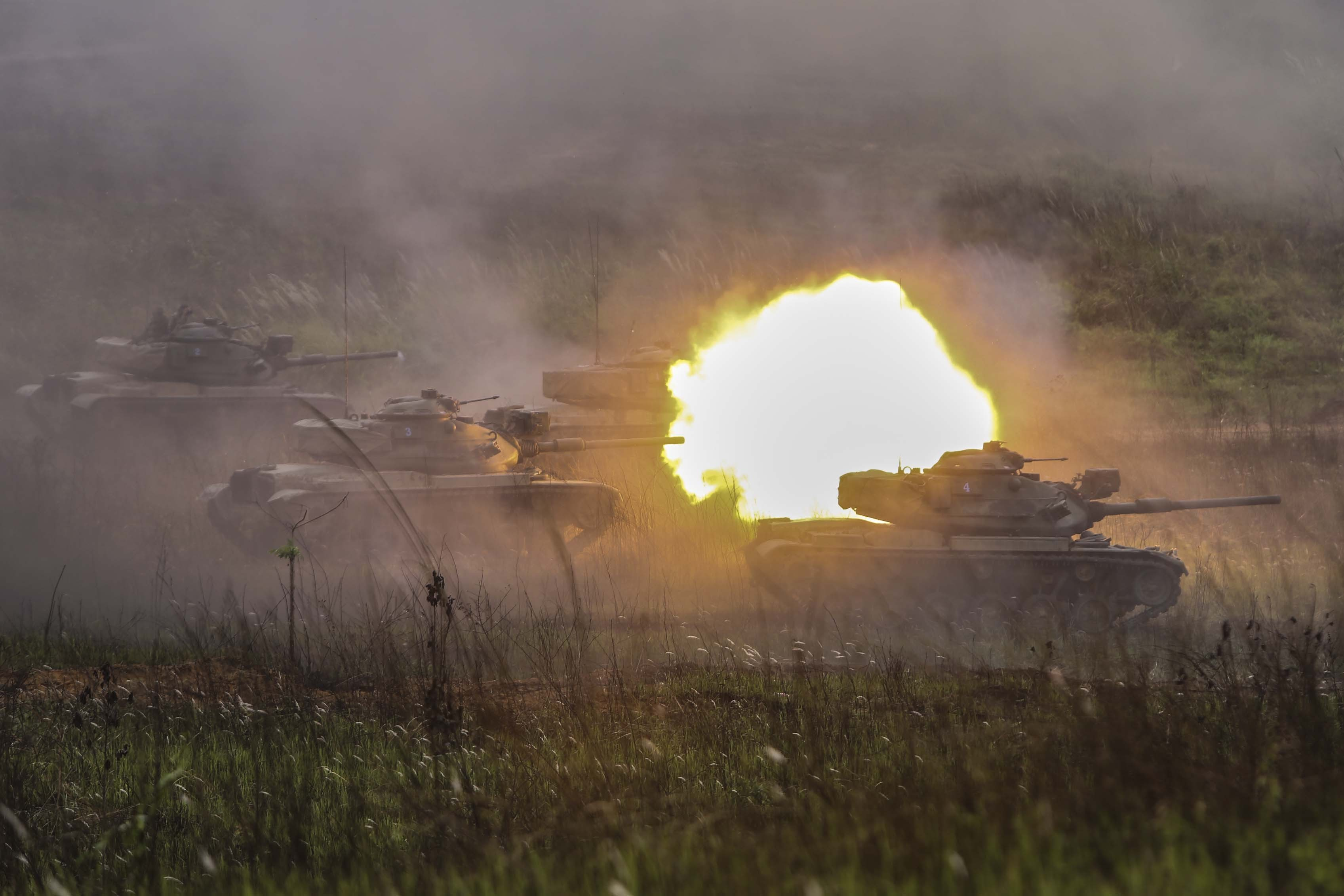 A Royal Thai Armed Forces M60A1 battle tank fires its main gun during a combined arms live-fire exercise at a training center in Ban Chan Krem, Thailand, Feb. 21, 2014, during exercise Cobra Gold 2014. Cobra Gold is a regularly scheduled joint/combined exercise designed to ensure regional peace and strengthen the ability of the Royal Thai Armed Forces to defend Thailand or respond to regional contingencies. (DoD photo by Sgt. Artur Shvartsberg, U.S. Marine Corps/Released)